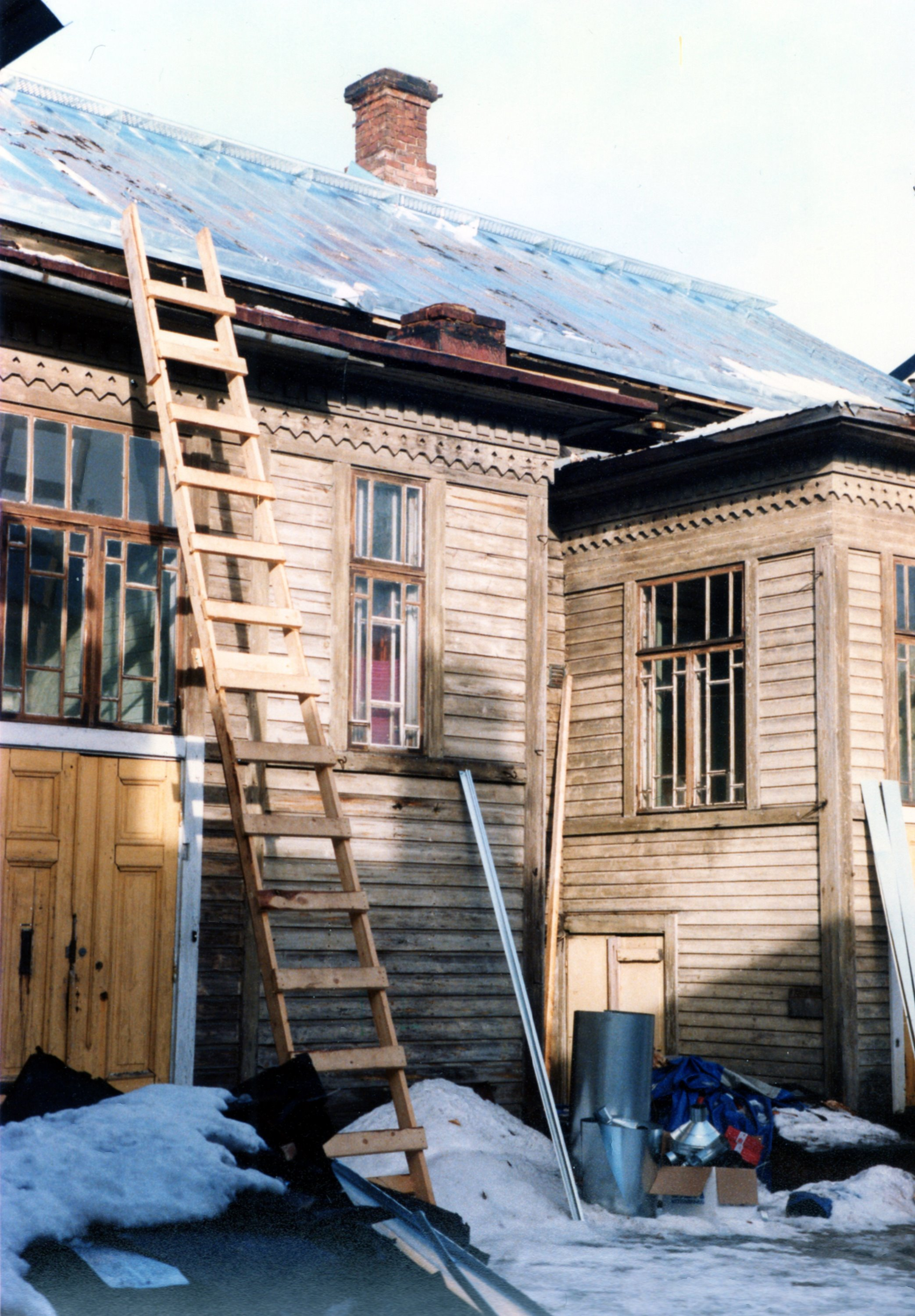 House Jurvelius seen from inner ward before renovation in Oulu, Finland